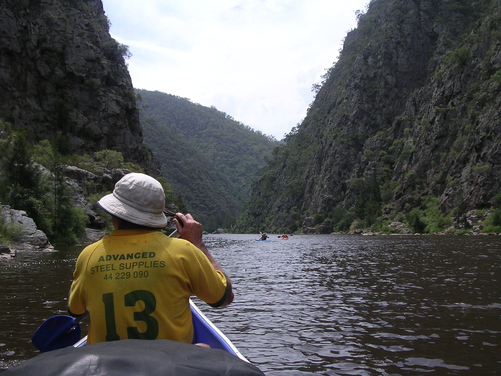 Block-up Gorge, Shoalhaven River